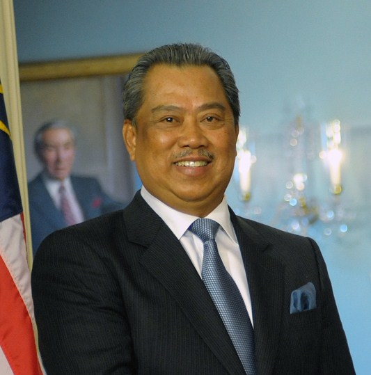 U.S. Secretary of State Hillary Rodham Clinton shakes hands with Malaysian Deputy Prime Minister and Education Minister Tan Sri Dato’ Haji Muhyiddin Bin Mohd. Yassin after their bilateral meeting at the U.S. Department of State in Washington, D.C